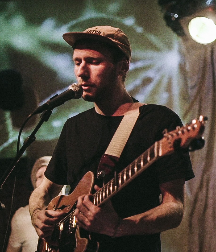 Novo Amor performing in Hamburg in 2015.